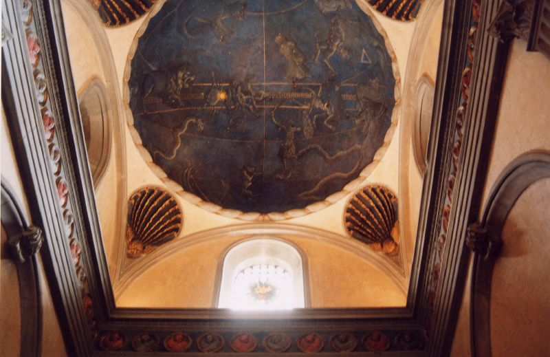 see above